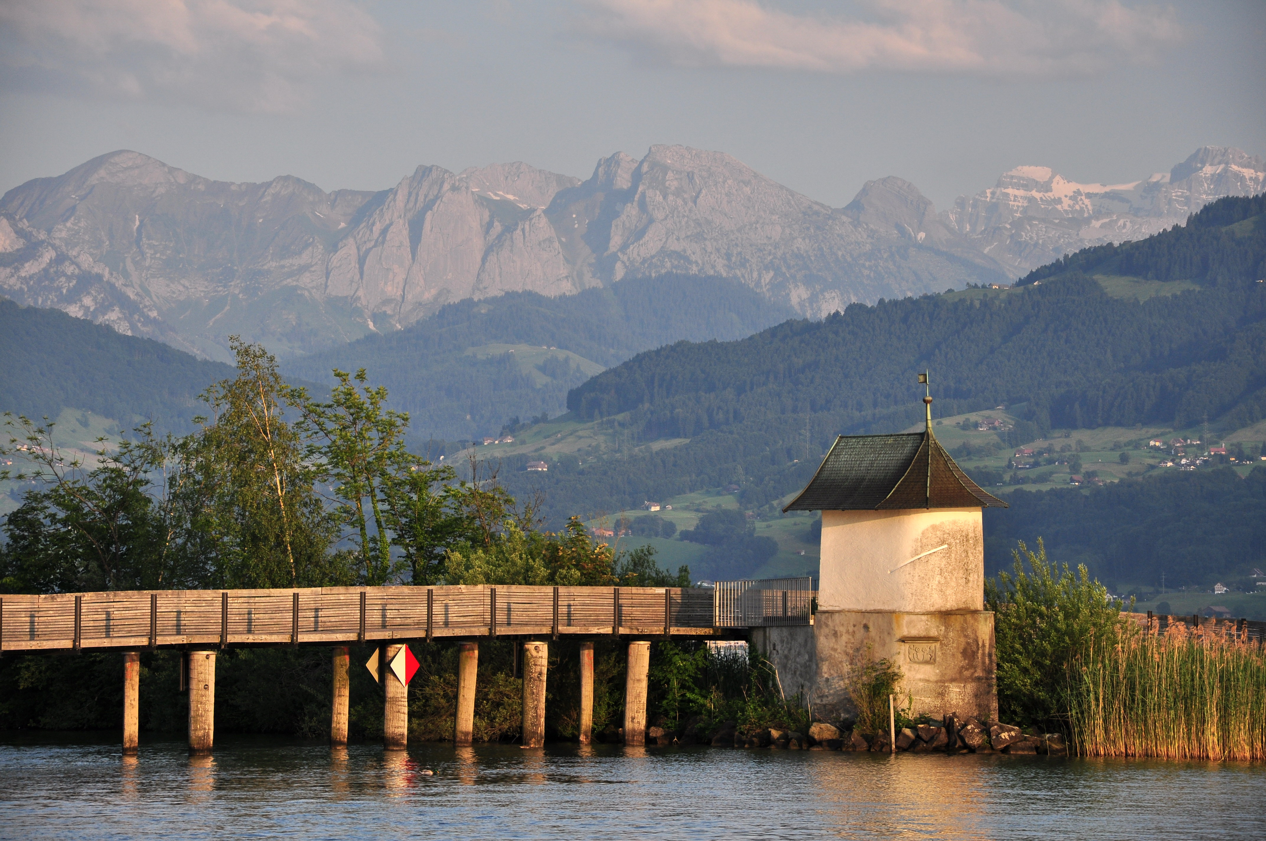 Rapperswil (SG) : Pilgersteg (Pilgrim's bridge) Rapperswil-Hurden, crossing Obersee (upper Lake Zurich), and «Heilig Hüsli» chapel.